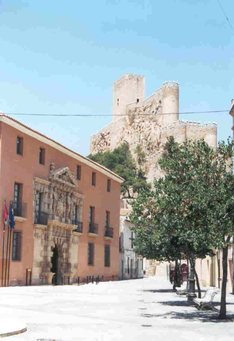 Castle of Almansa and Town Hall (Spain). Castle of Almansa (Almansa).